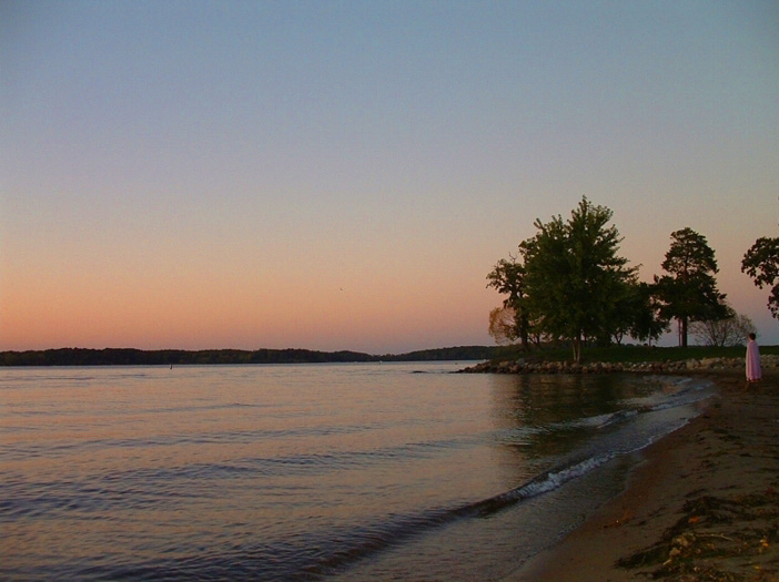 Late afternoon stroll at Lake Minnetonka, the water is calm, warm weather, people from all walks of life come to this place just to relax and enjoy the scenery.